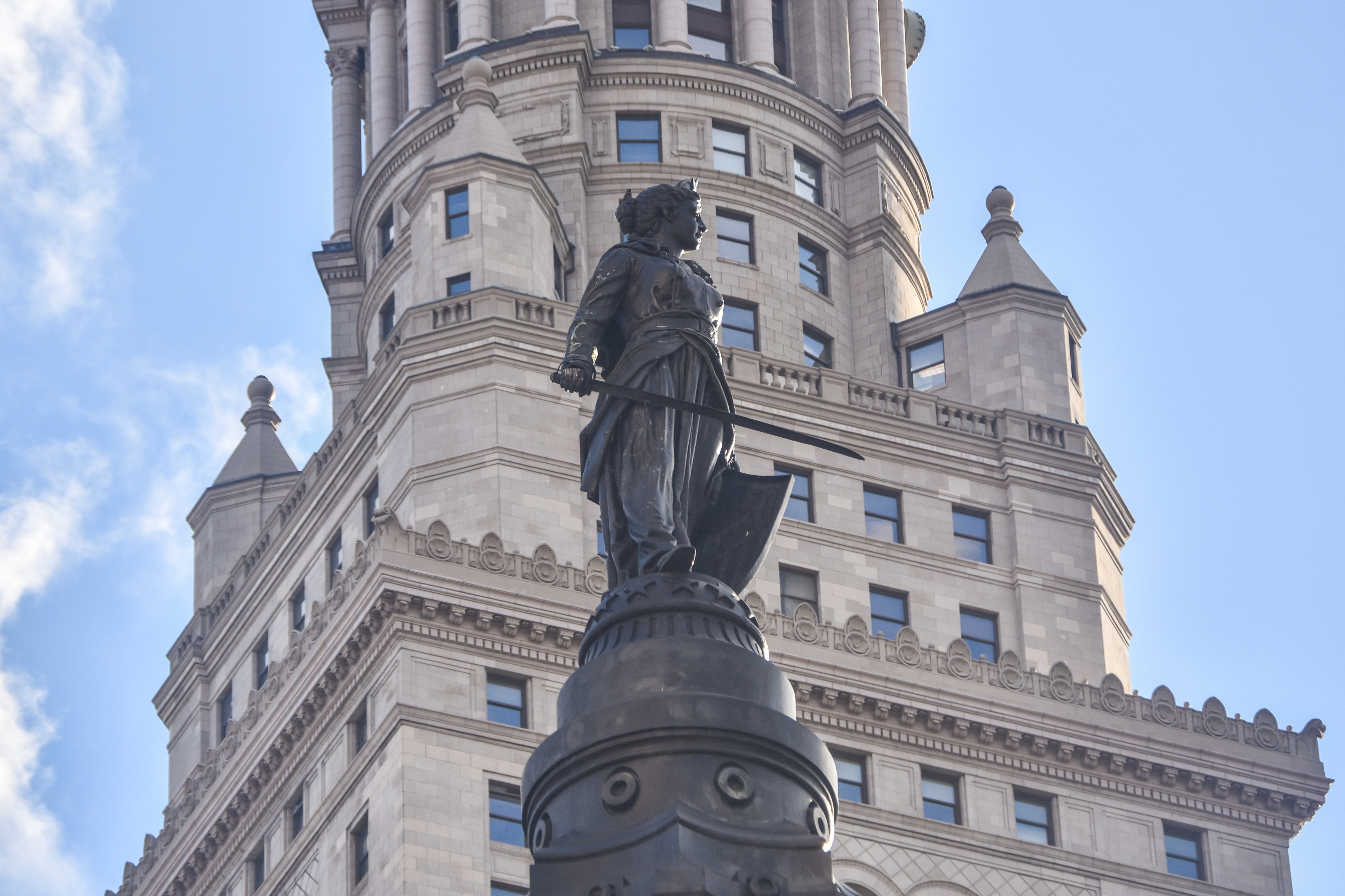 Cleveland Public Square